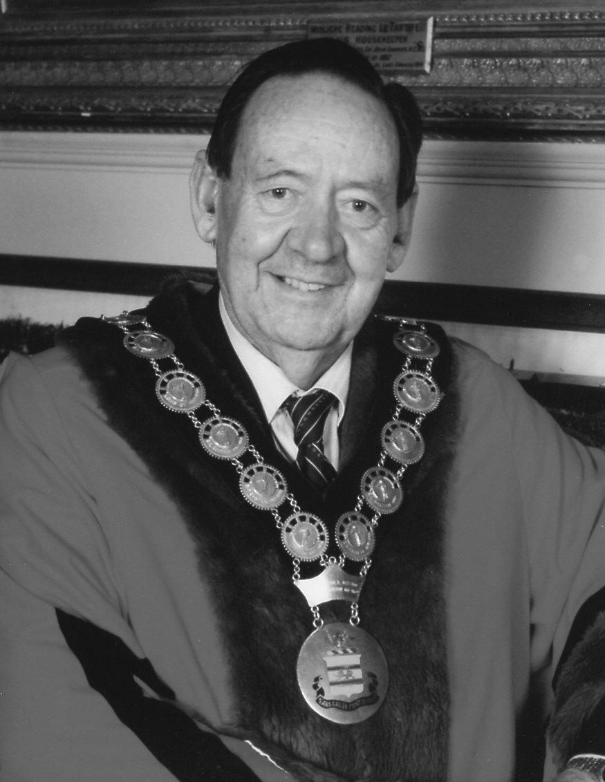 Bruce Eastick.